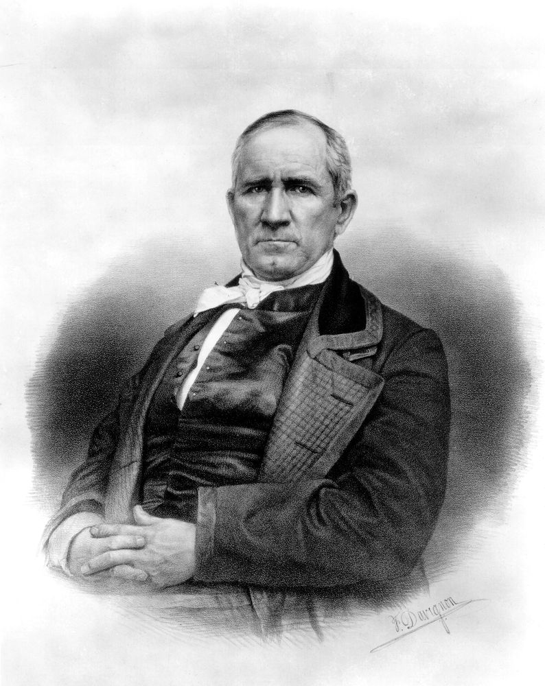 Image of Sam Houston